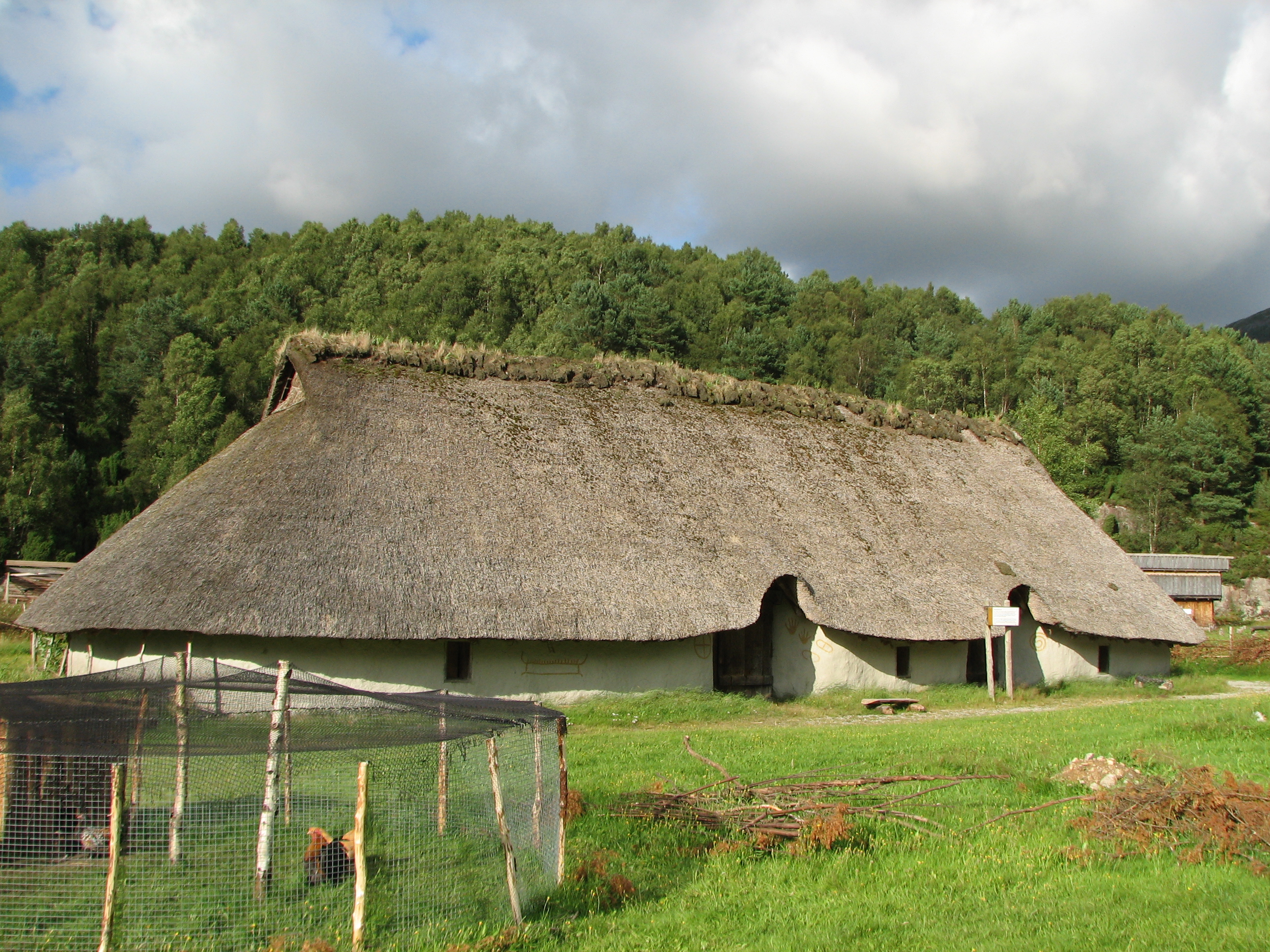 Landa (archaeological outdoor museum) - Viking house